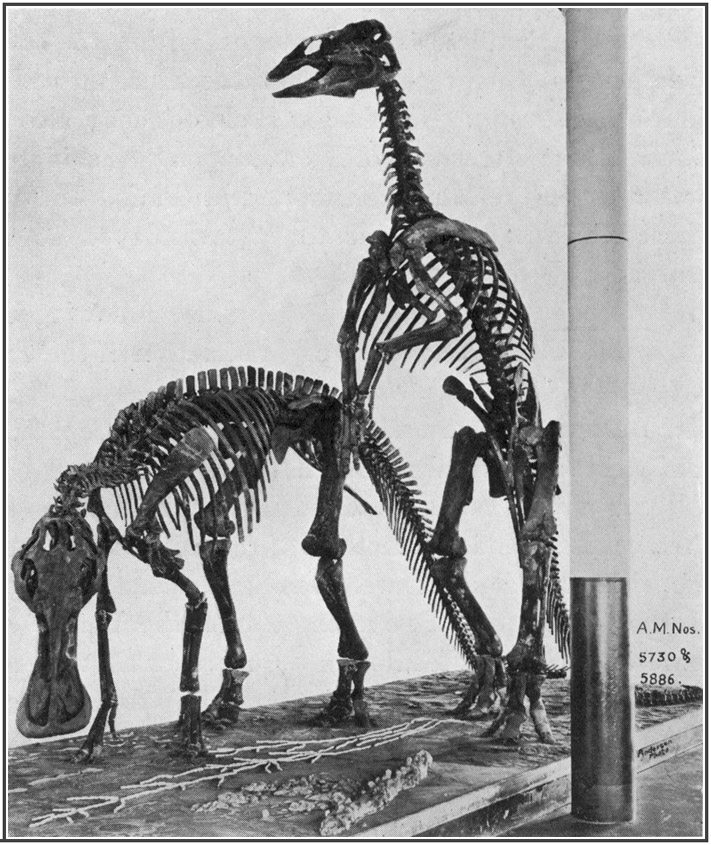 Historical photograph of the mounted skeletons of two specimens (AMNH 5730 and AMNH 5886) of the very large duck-billed dinosaur Edmontosaurus annectens (then referred to as “Trachodon mirabilis”) in the AMNH, New York. Height of standing skeleton 16 feet, 10 inches.